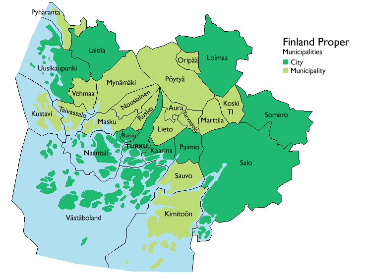 A map of the municipalities of Finland Proper (Varsinais-Suomi).